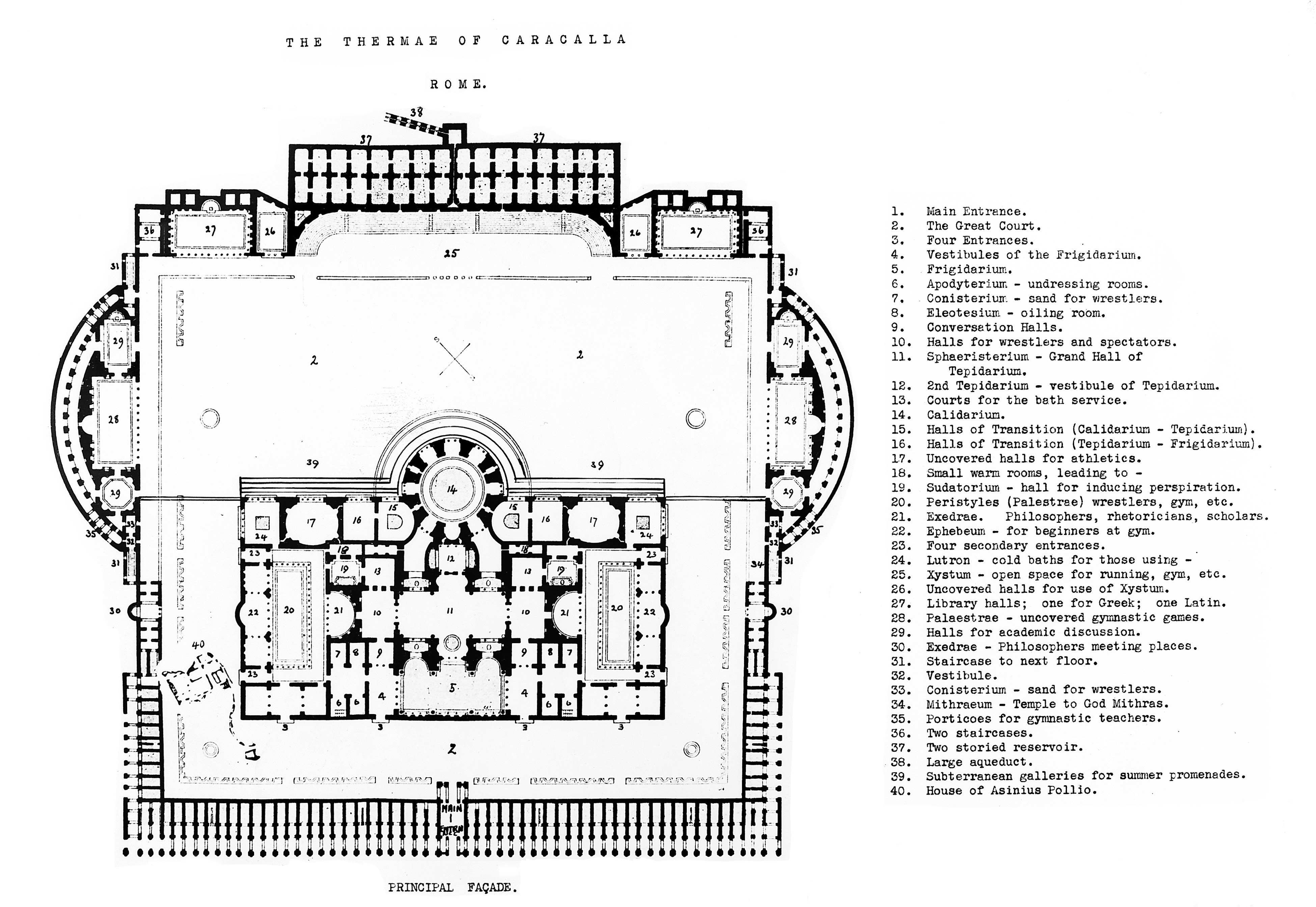 Thermae of Caracalla, Rome Wellcome Images Keywords: greek and roman